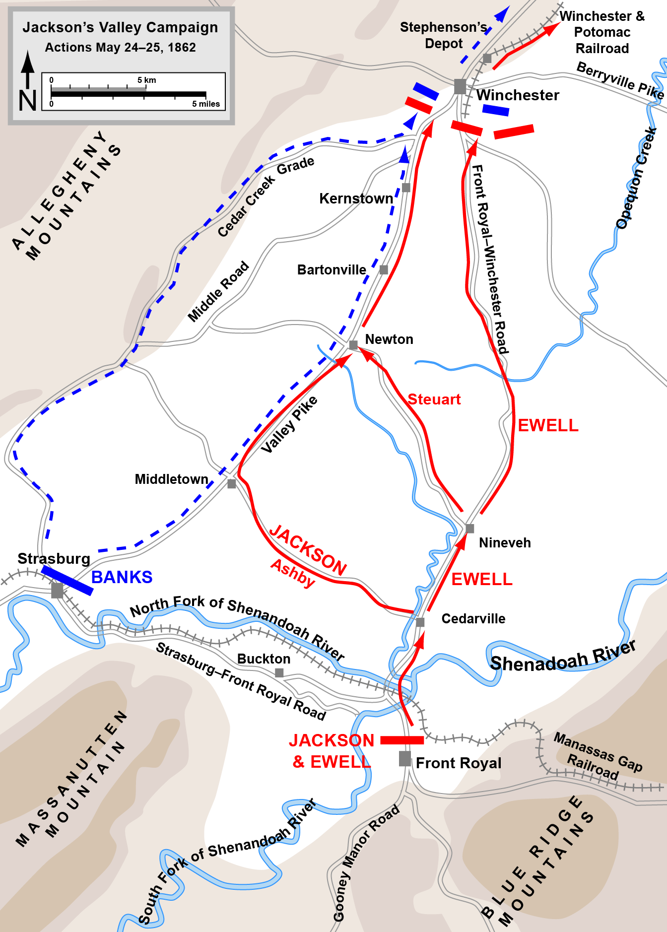 Map of part of Jackson's Valley Campaign (actions from Front Royal to First Winchester, May 23-24, 1862) of the American Civil War.